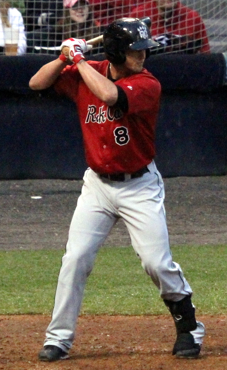 4/4/13 Opening night at the Richmond Flying Squirrels with Javy Lopez and Ryan Kerrigan. Dan Rohlfing at bat. The game got rained out (as you can progressively see in my photos). I rode my bike home at 8pm after the game was stopped.